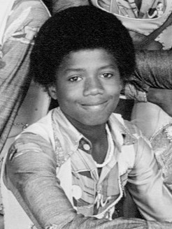 Randy Jackson at the start of television program "The Jacksons".